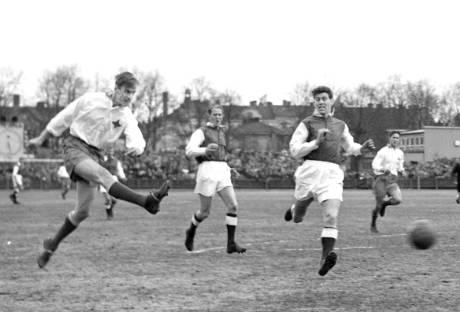 Herbert Sandin, IFK Norrköping, i en allsvensk match på Jernvallen i Sandviken mot Sandvikens IF, den 14 oktober 1956.